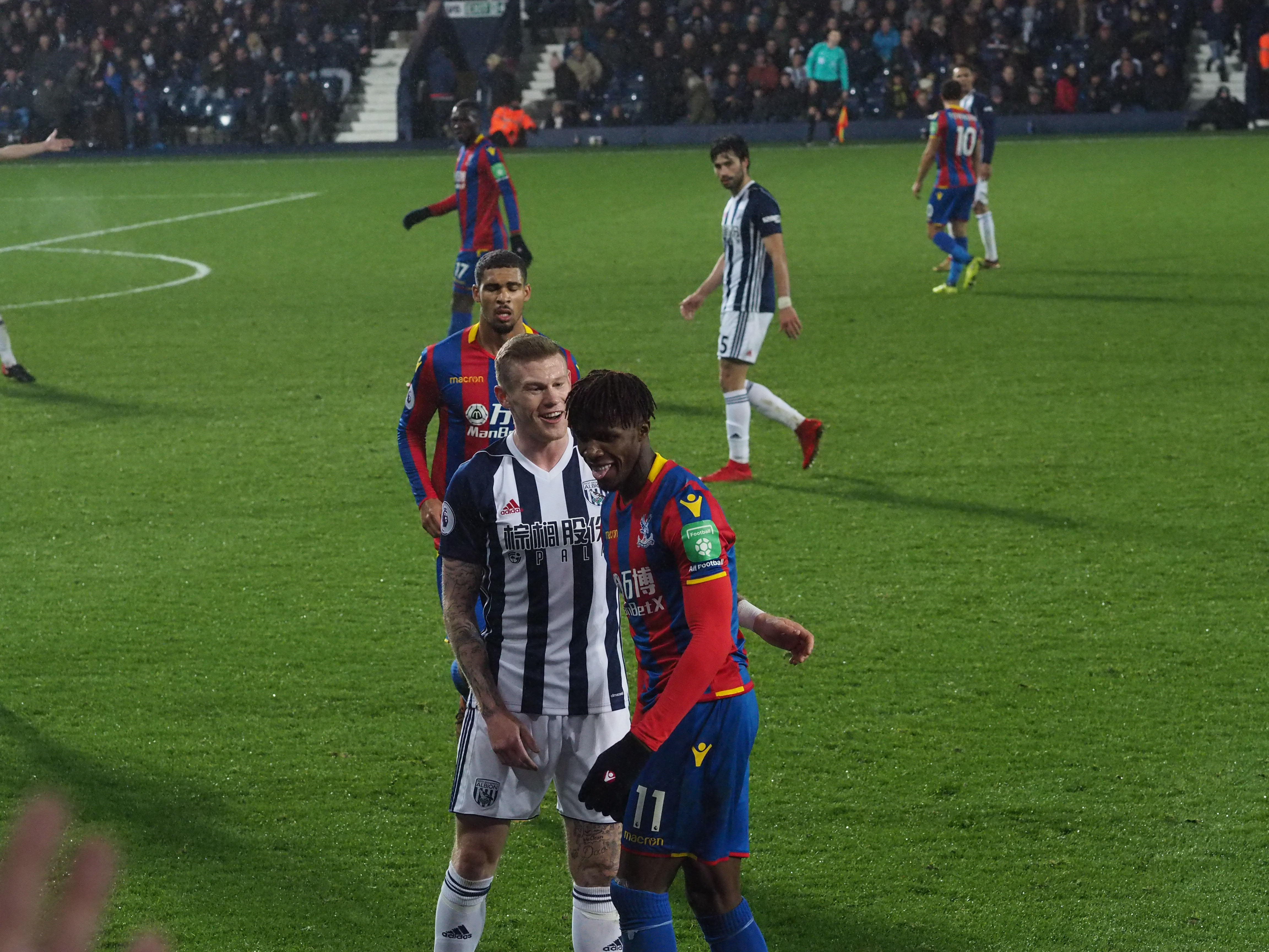 West Bromwich Albion - Crystal Palace 0:0, The Hawthorns, Premier League, 02-Dec-2017